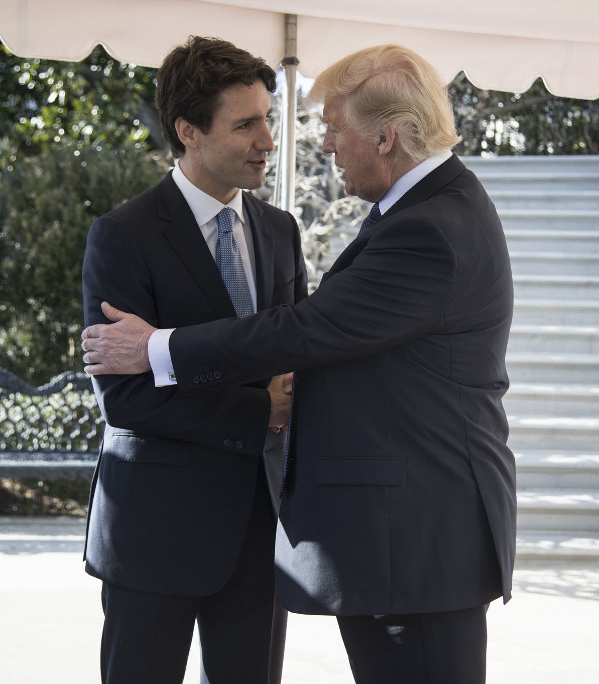 President Donald Trump bids farewell to Canadian Prime Minister Justin Trudeau, Monday, Feb. 13, 2017, at the South Portico of the White House in Washington, D.C.